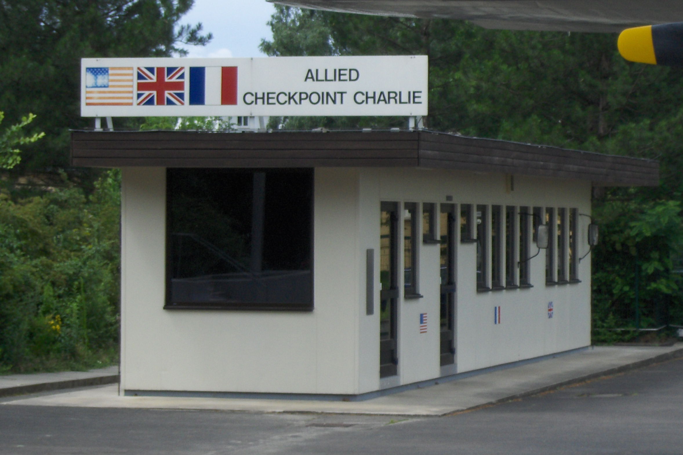 The Checkpoint Charlie building in place at the time of the fall of the Berlin Wall (the one at the actual point of the checkpoint is a smaller model) at its present location - the Allied Forces Museum in a suburb of Berlin, Germany